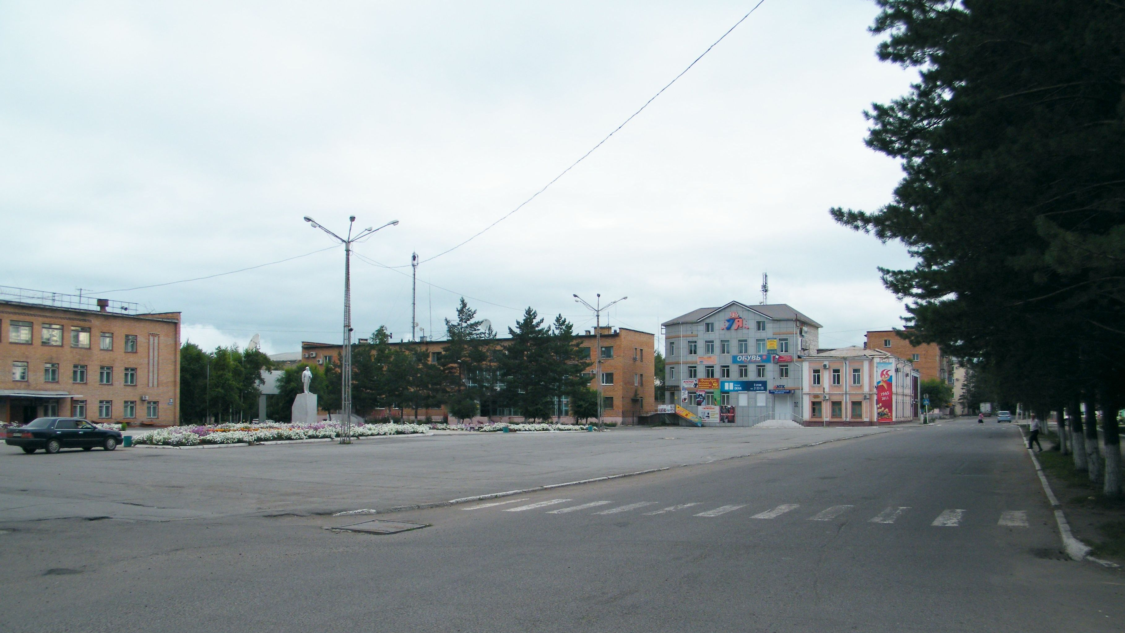 Spassk-Dalniy